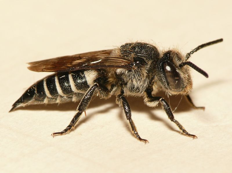 Coelioxys inermis, female. Location: The Netherlands - Gelderland - Rhenen - Blauwe Kamer